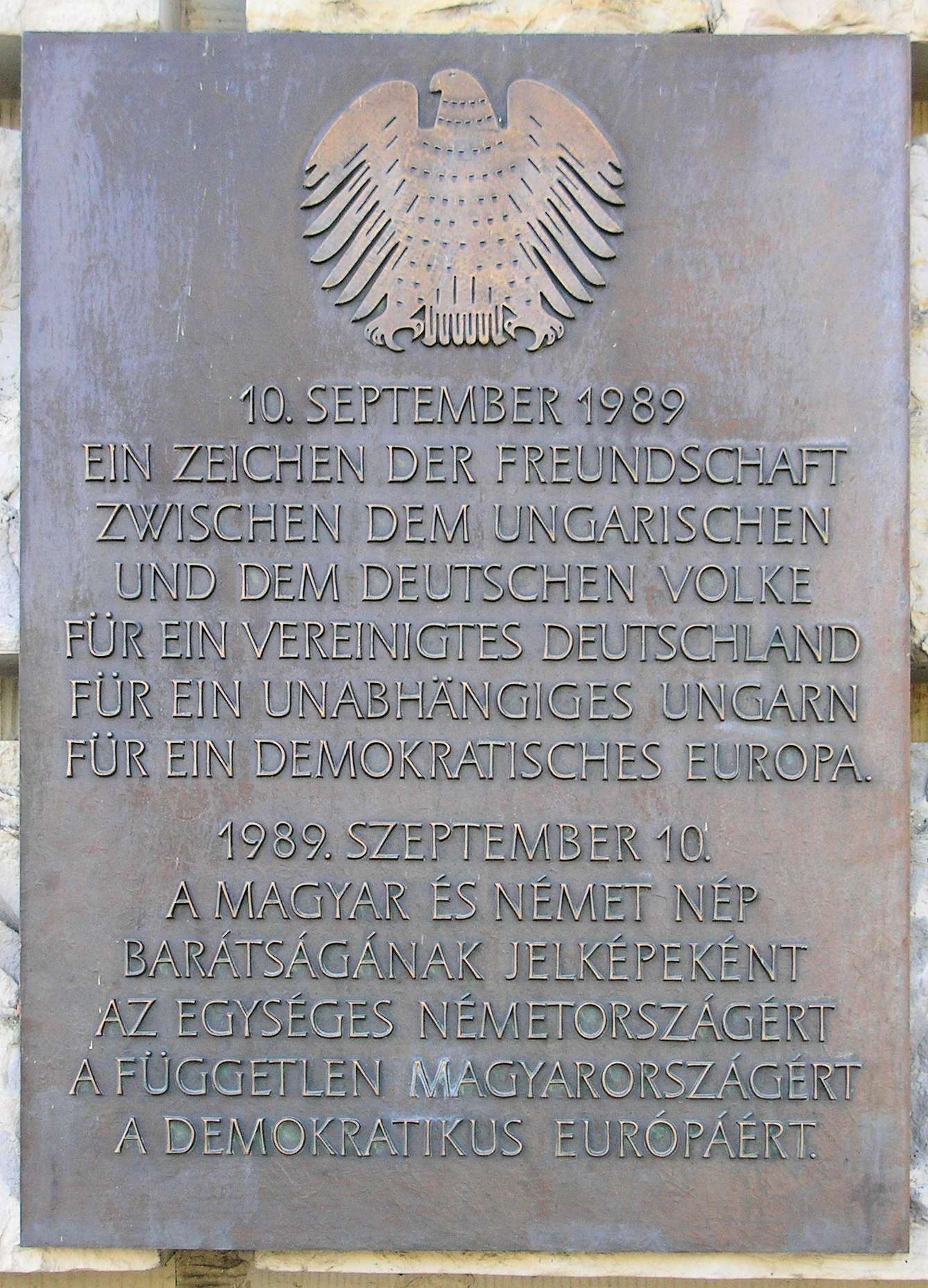 Memorial plaque, Ungarische Grenzöffnung, Paul-Löbe-Allee , Berlin-Tiergarten, Germany Koordinate:52°31′9″N 13°22′36″E / 52.51917°N 13.37667°E